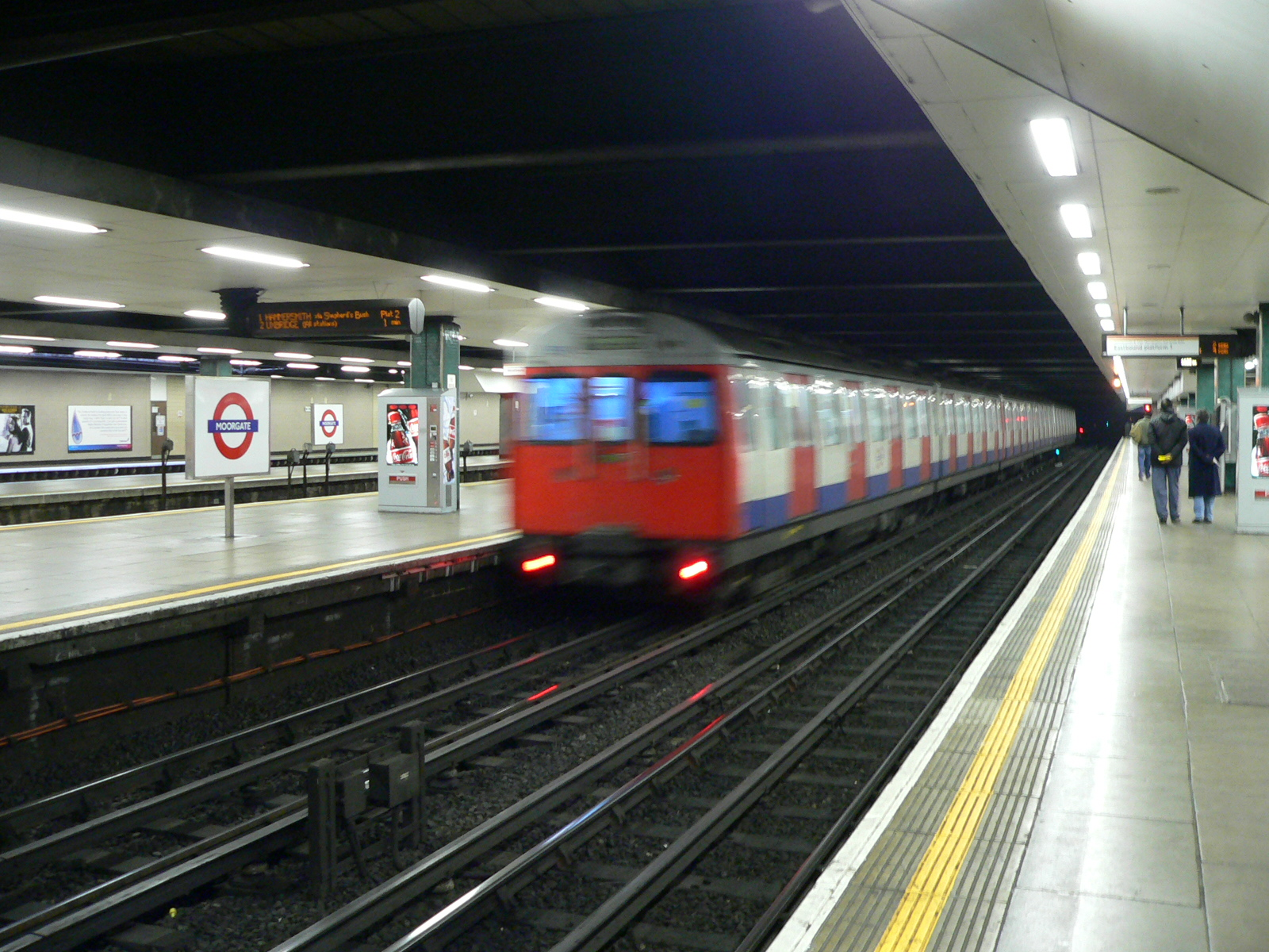 A westbound London Underground C69 Stock subsurface EMU departs Moorgate station with a Hammersmith & City Line service to Hammersmith.